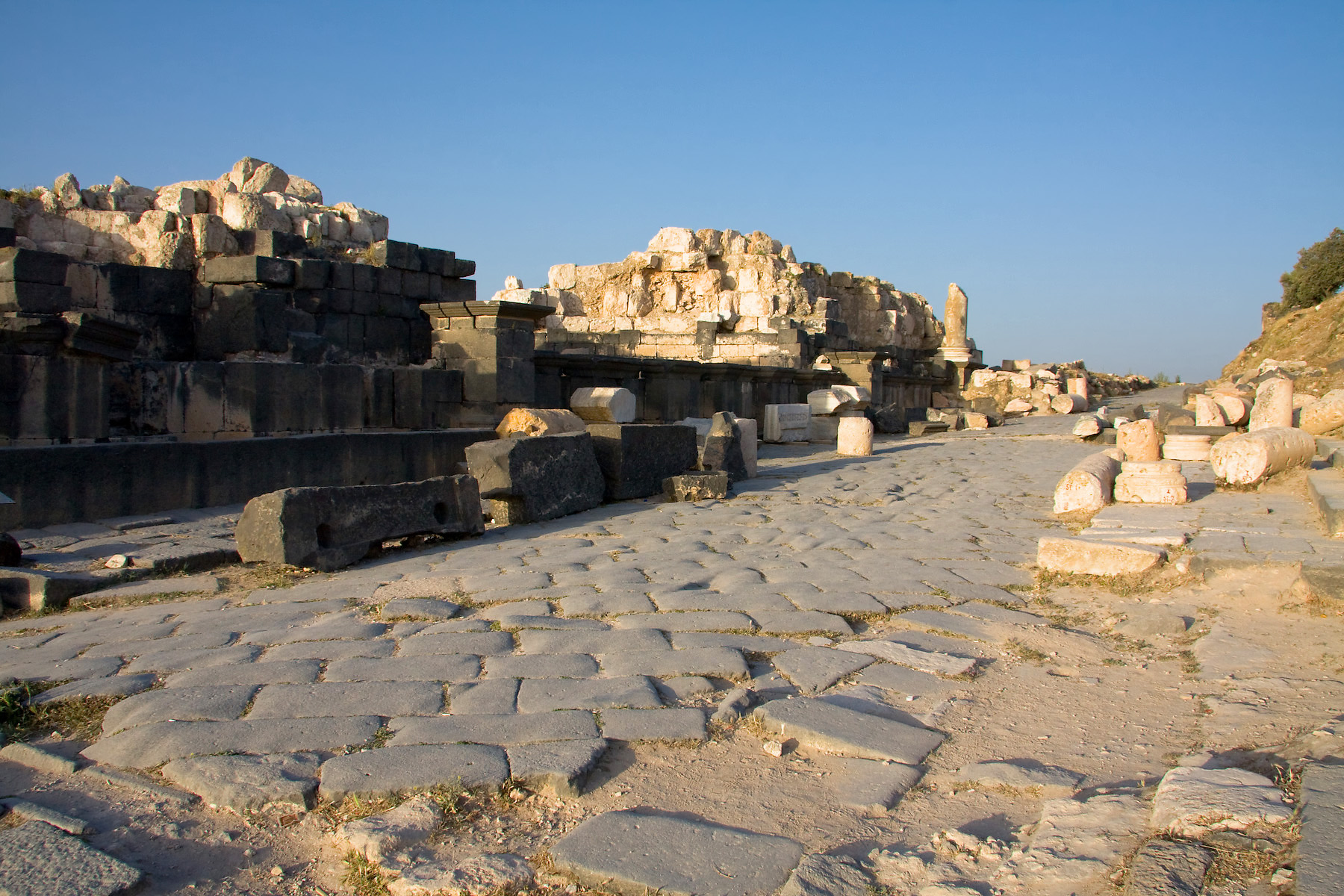 Roman ruins of Umm Qais, Jordan.